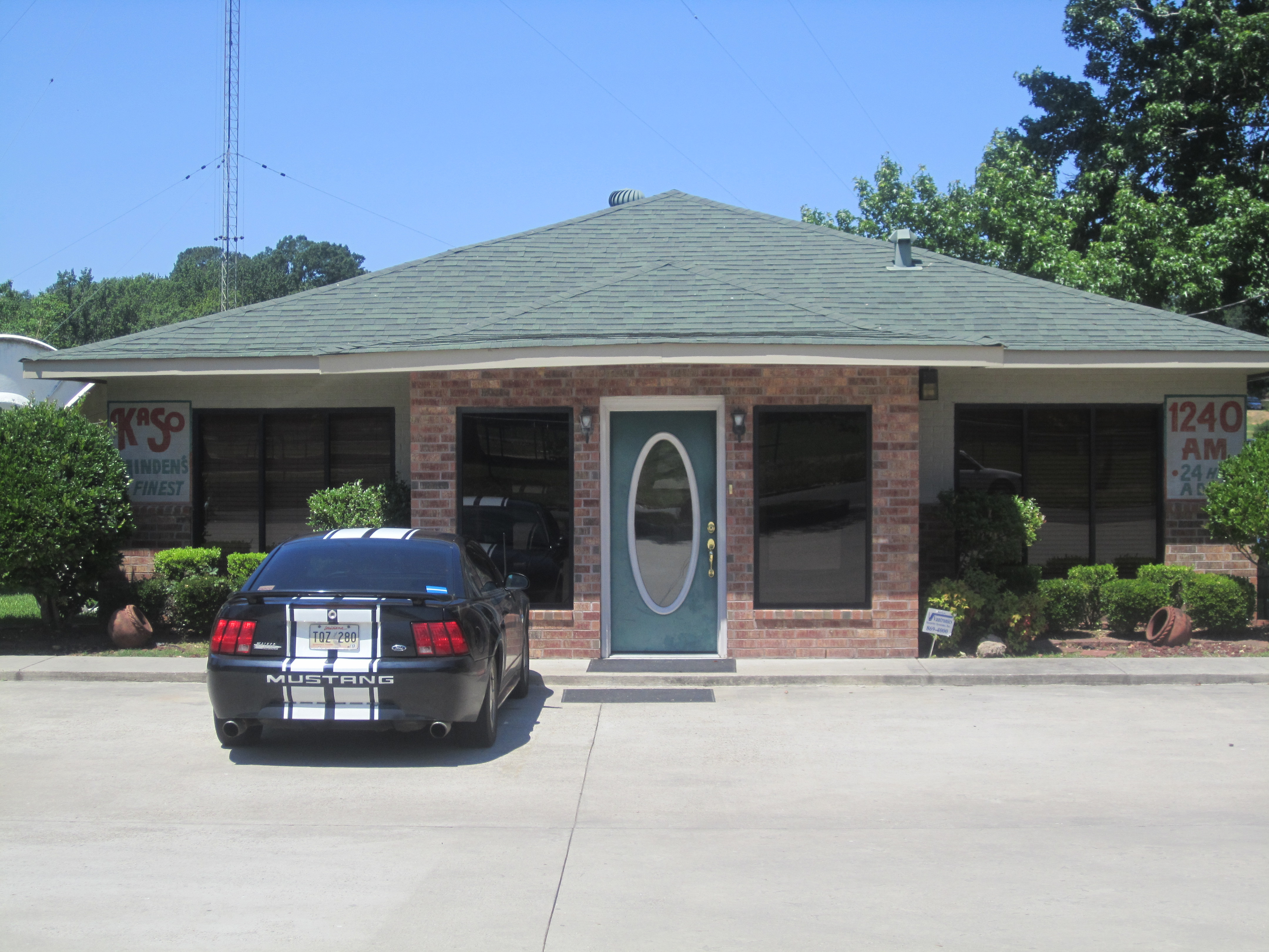 I took photo with Canon camera in Minden, LA.